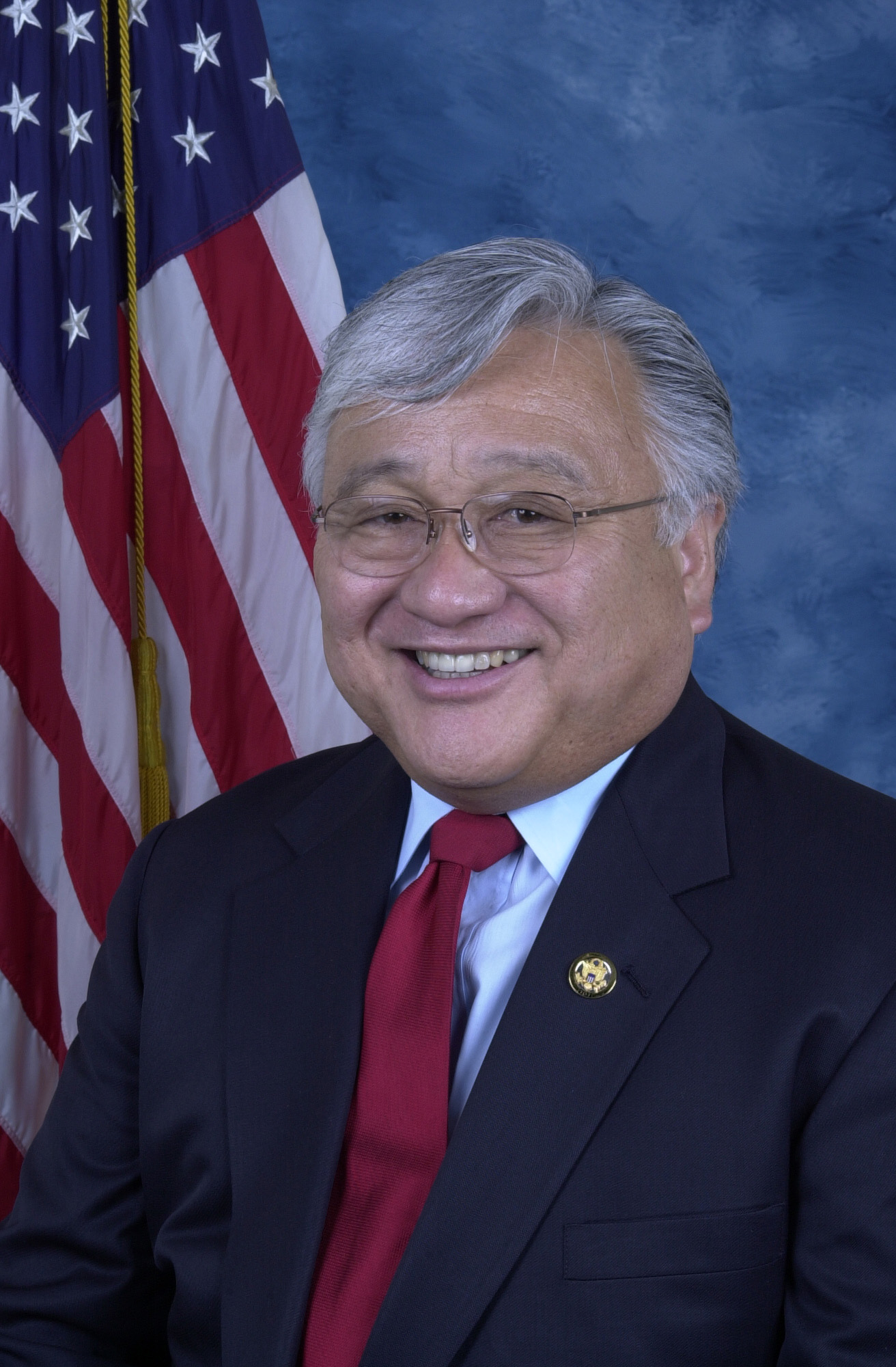 Official portrait of Congressman Mike Honda